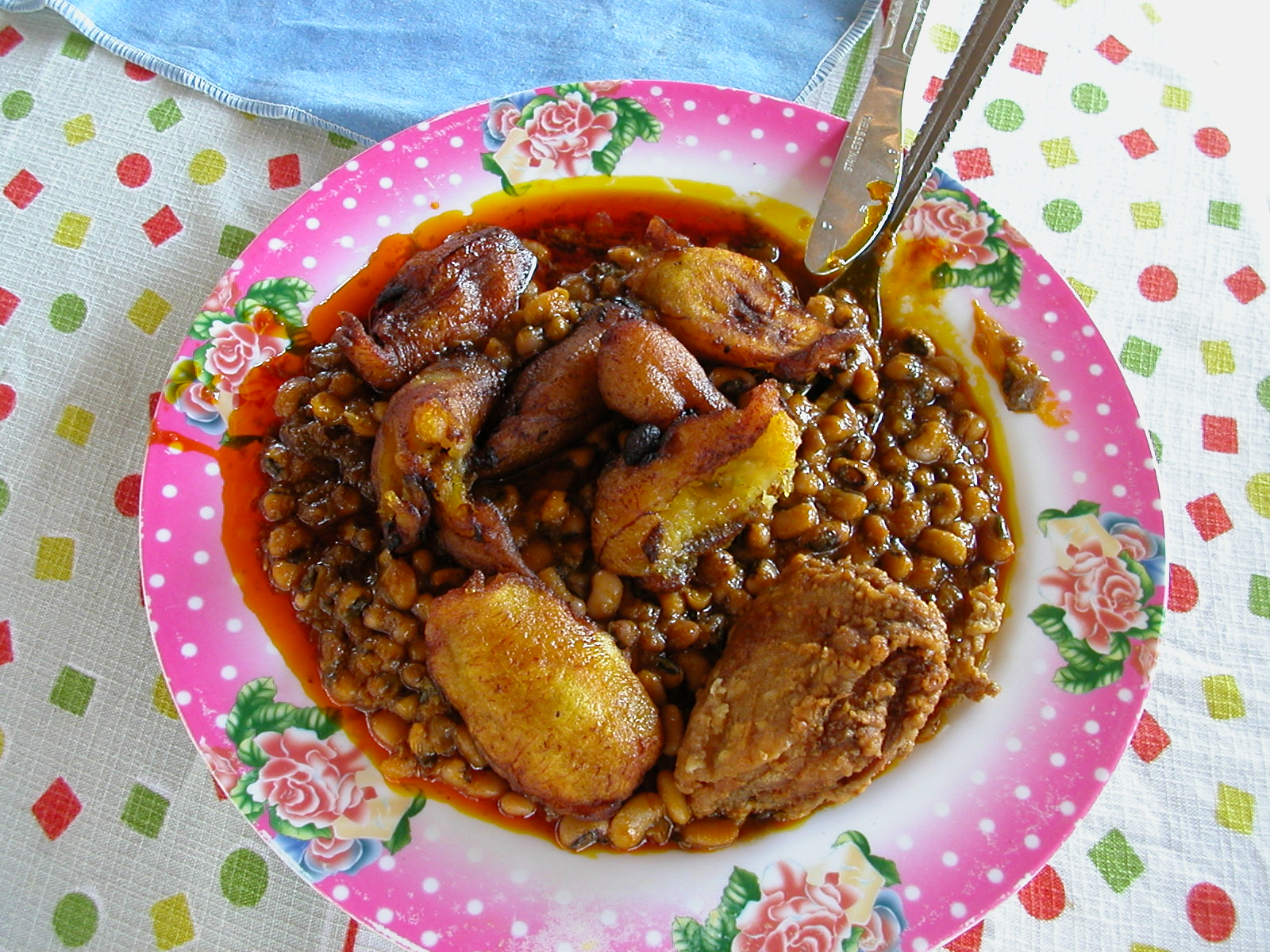 Ghanaian style cooked Beans, Plantain (non-sweet banana) and Chicken, cuisine dish food, in Ghana.